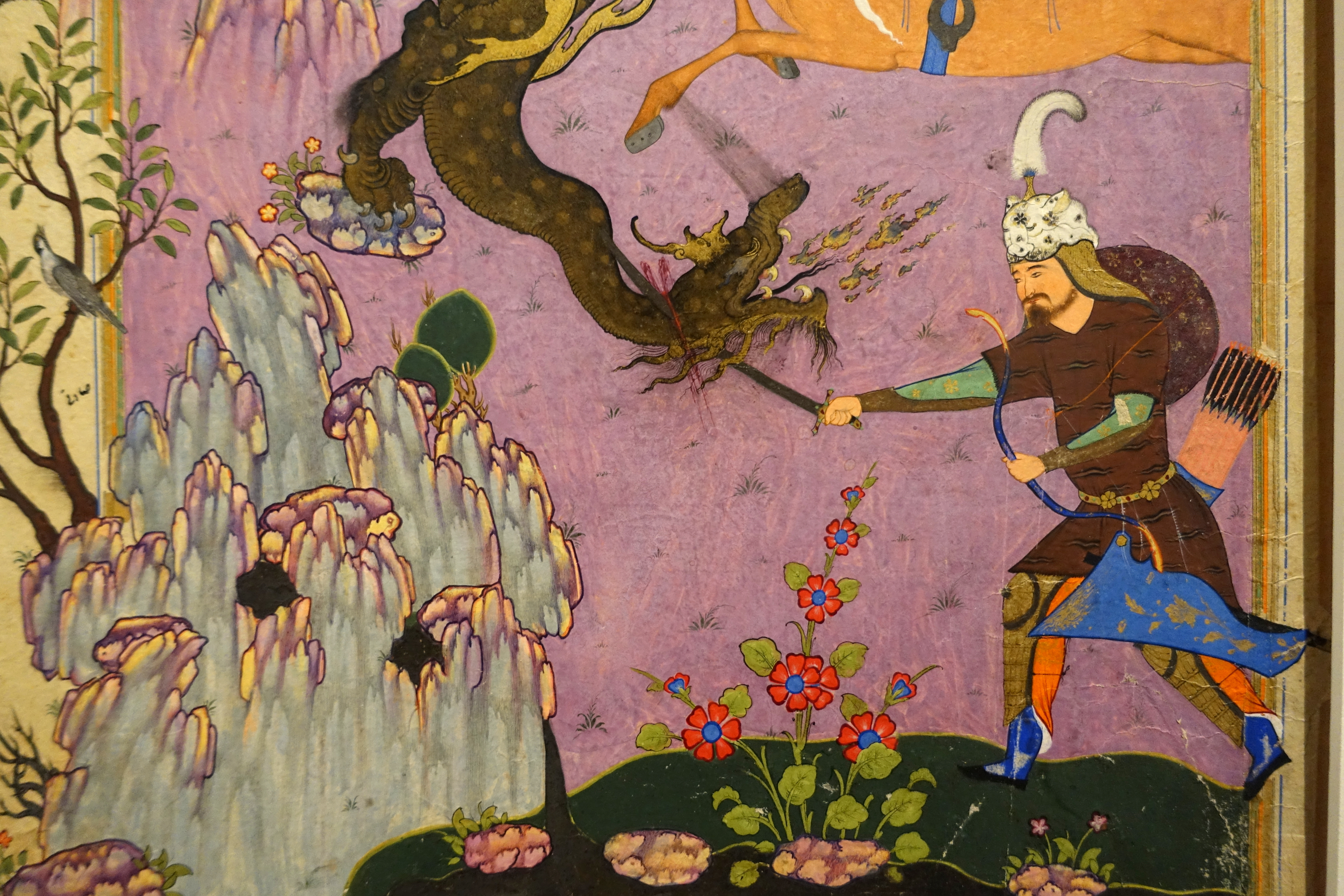 Exhibit in the Aga Khan Museum - Toronto, Canada. This work is old enough so that it is in the public domain.